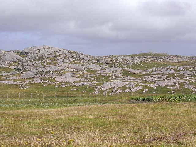 Creag na h-Iolaire Just to the east of the secluded bay and beach of Port an t-Saoir. Machair in the foreground gives way to a jumble of low rocky hills to the north.